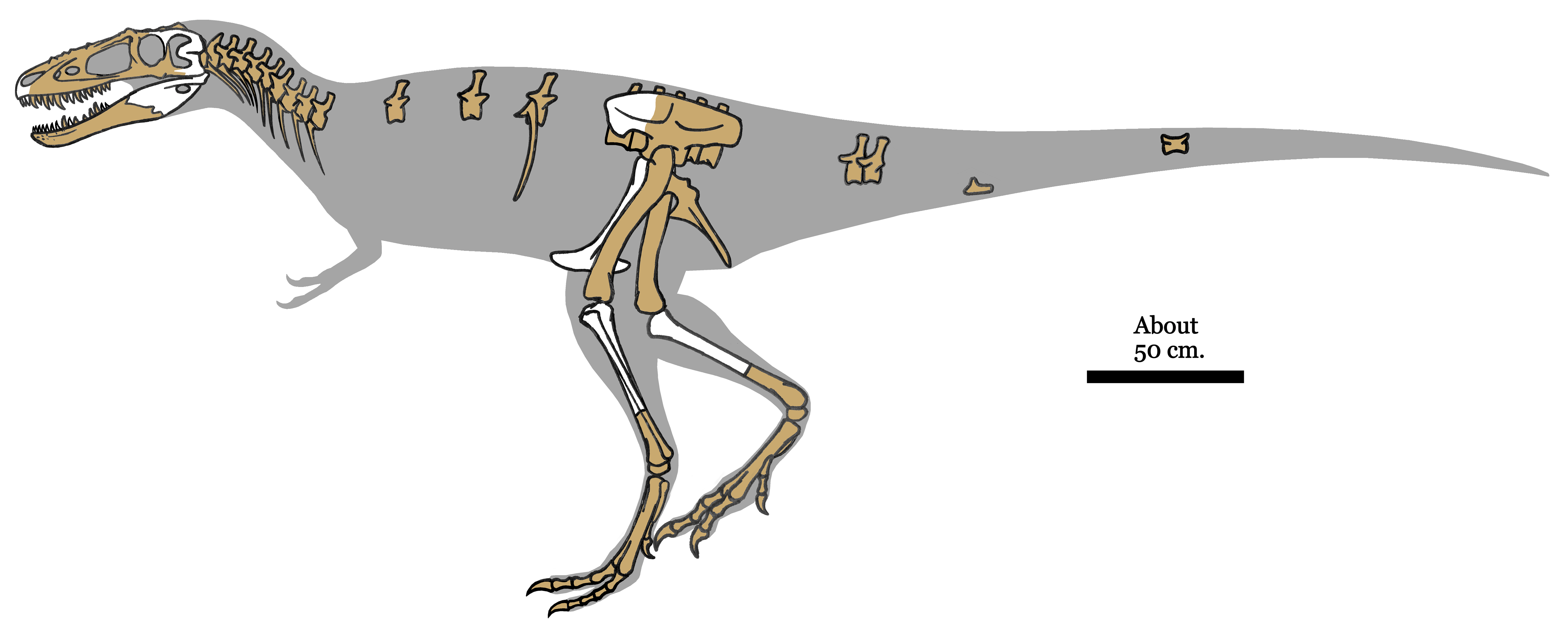 Skeletal diagram showing the known pieces after the dinosaur Alioramus altai (dinosauria, theropoda, coelurosauria, tyrannosauridae), based on the species holotype IGM 100/1844.[1] References ↑ Bever, Gabe S.; Brusatte, Stephen L.; "A long-snouted, multihorned tyrannosaurid from the Late Cretaceous of Mongolia", Proceedings of the National Academy of Sciences 106(41): p. 17261-17266.